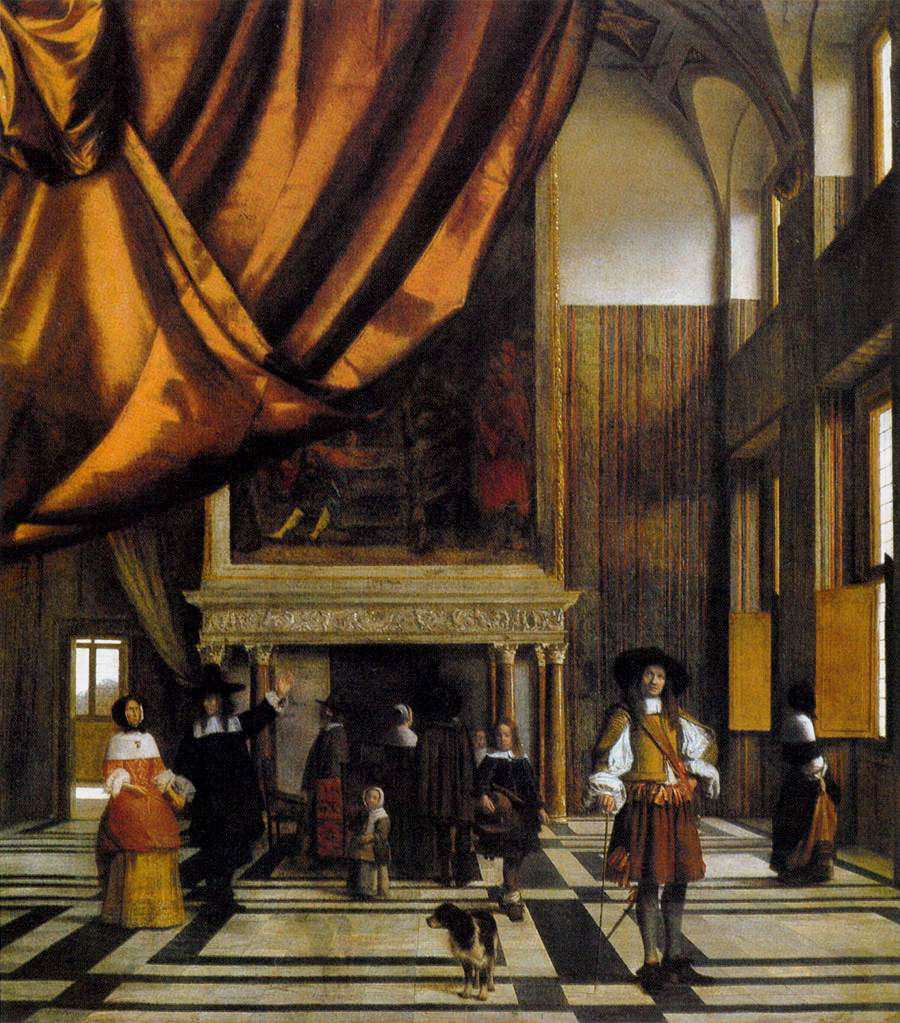 The Council Chamber in Amsterdam Town Halllabel QS:Len,"The Council Chamber in Amsterdam Town Hall" label QS:Lfr,"La Chambre du Conseil de l'hôtel de ville d'Amsterdam"